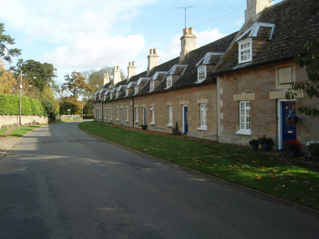 Almshouses Titchmarsh There are two distinct sections to this row of Almshouse. The middle consisting of 4 cottage was built as a hospital for 8 persons around 1756. At each end a "modern" extension to house Bedes men and women built in 1857 and 1863.